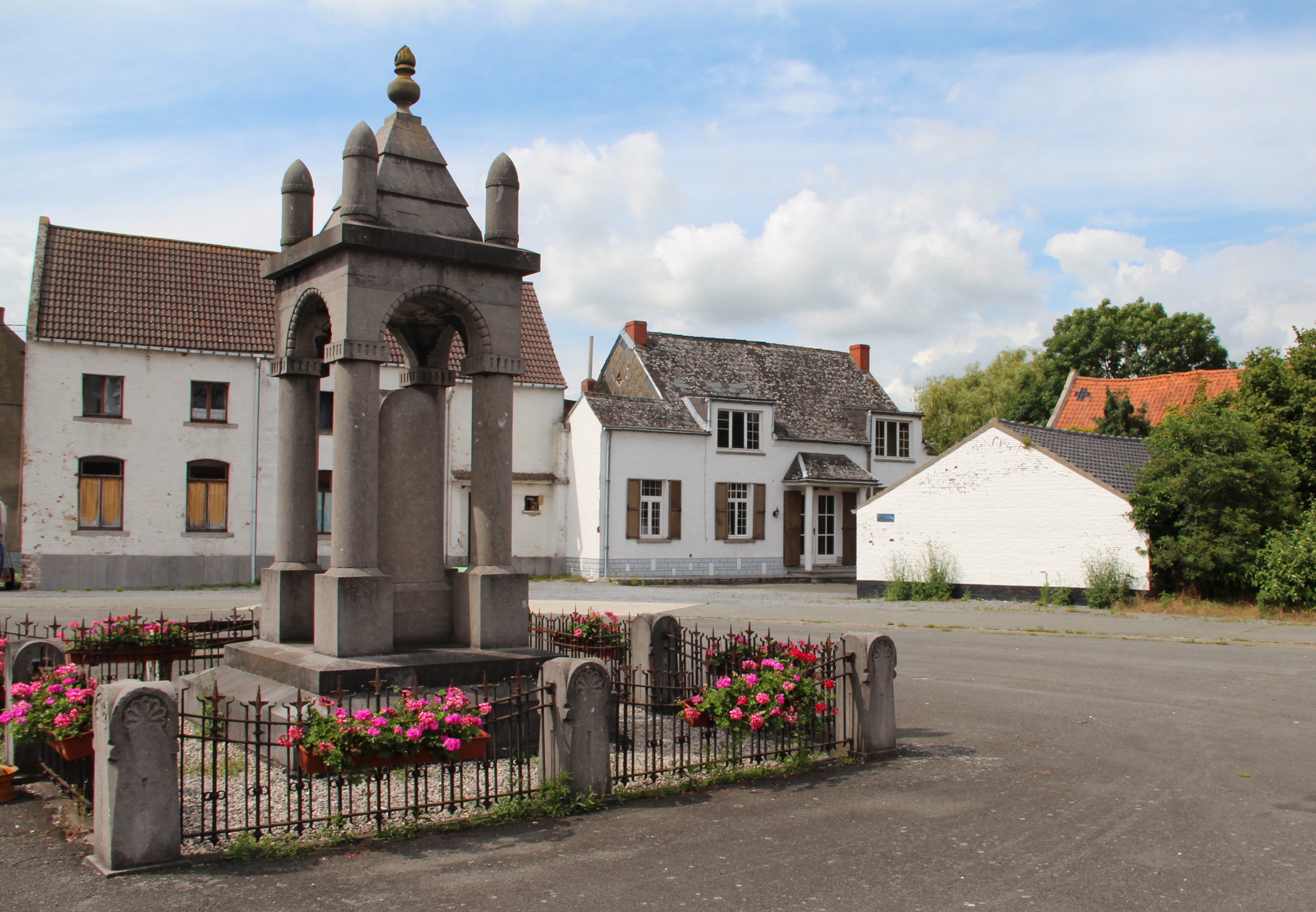 Bauffe (Belgium), Place de Bauffe - the memorial dedicated to the victims of the first world war.